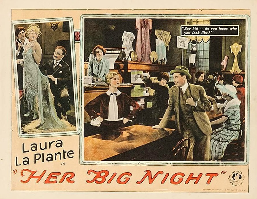 Lobby card for the American comedy film Her Big Night (1926).